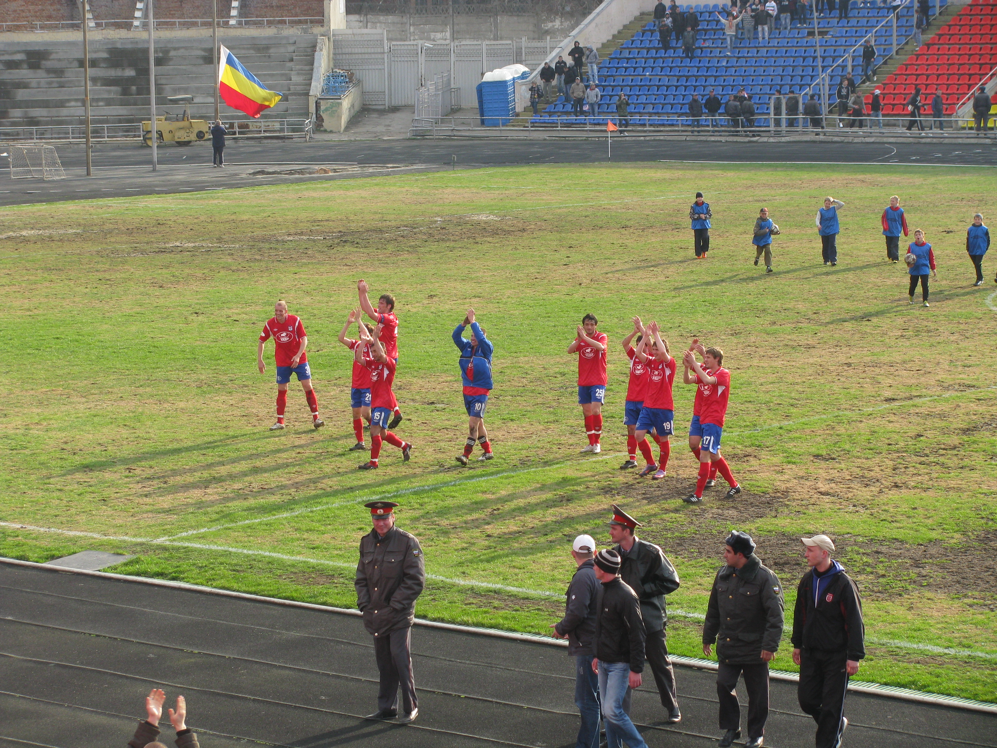 FC SKA Rostov-on-Don after match against FC Mitos on April 17, 2011